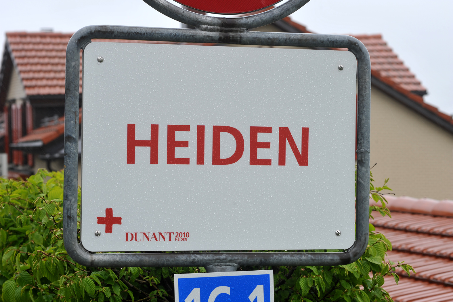 City limit sign of Heiden in the Dunant commemoration year 2010; Appenzell Ausserrhoden, Switzerland.